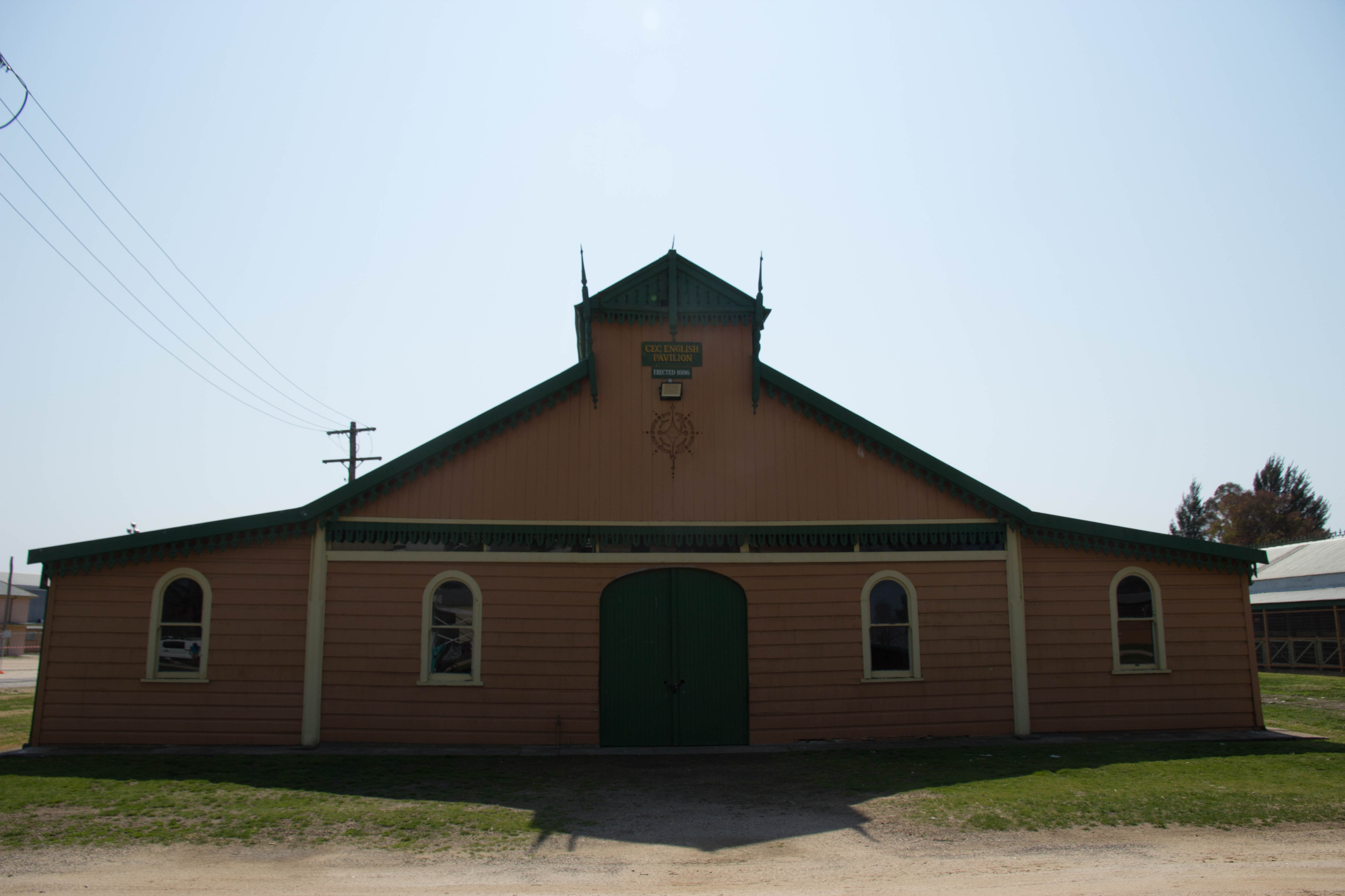 Bathurst Showground in Bathurst, New South Wales